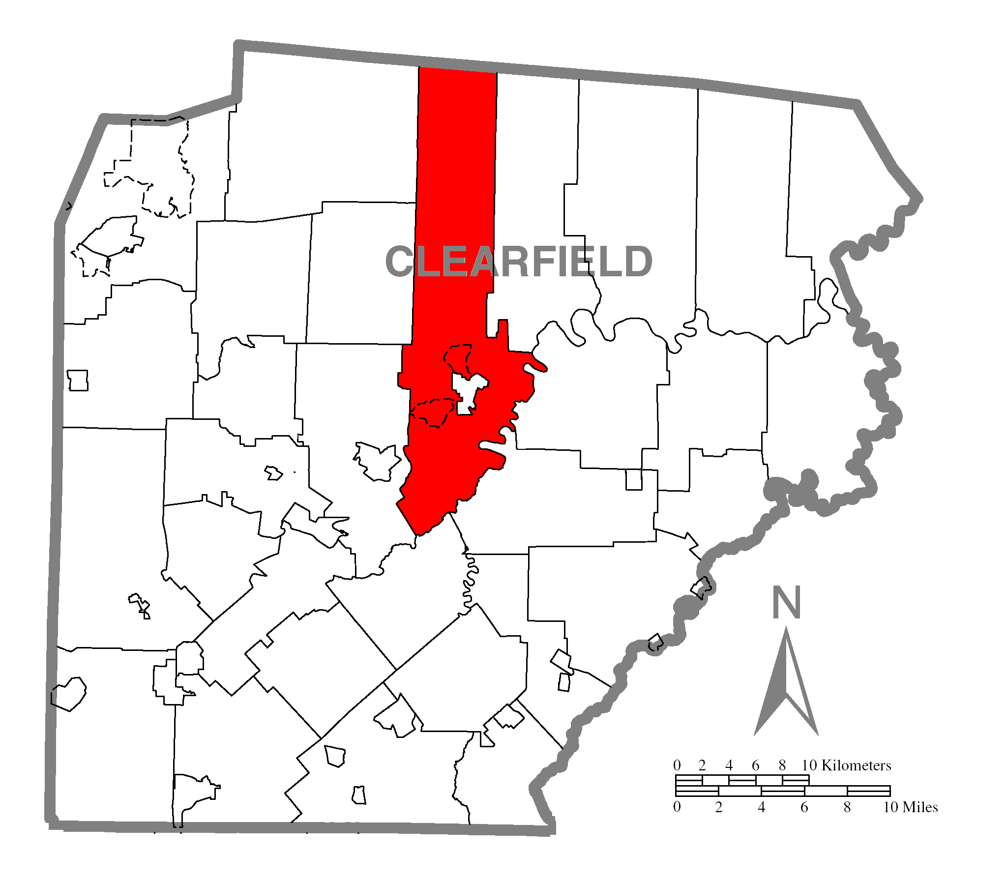 A map of Clearfield County showing Lawrence Township, Pennsylvania (alternate) highlighted on the map.